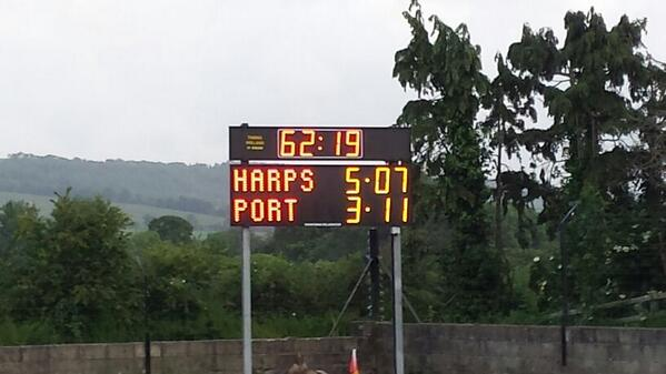 An example of a gaa scoreboard and timekeeping. The Harps GAA vs